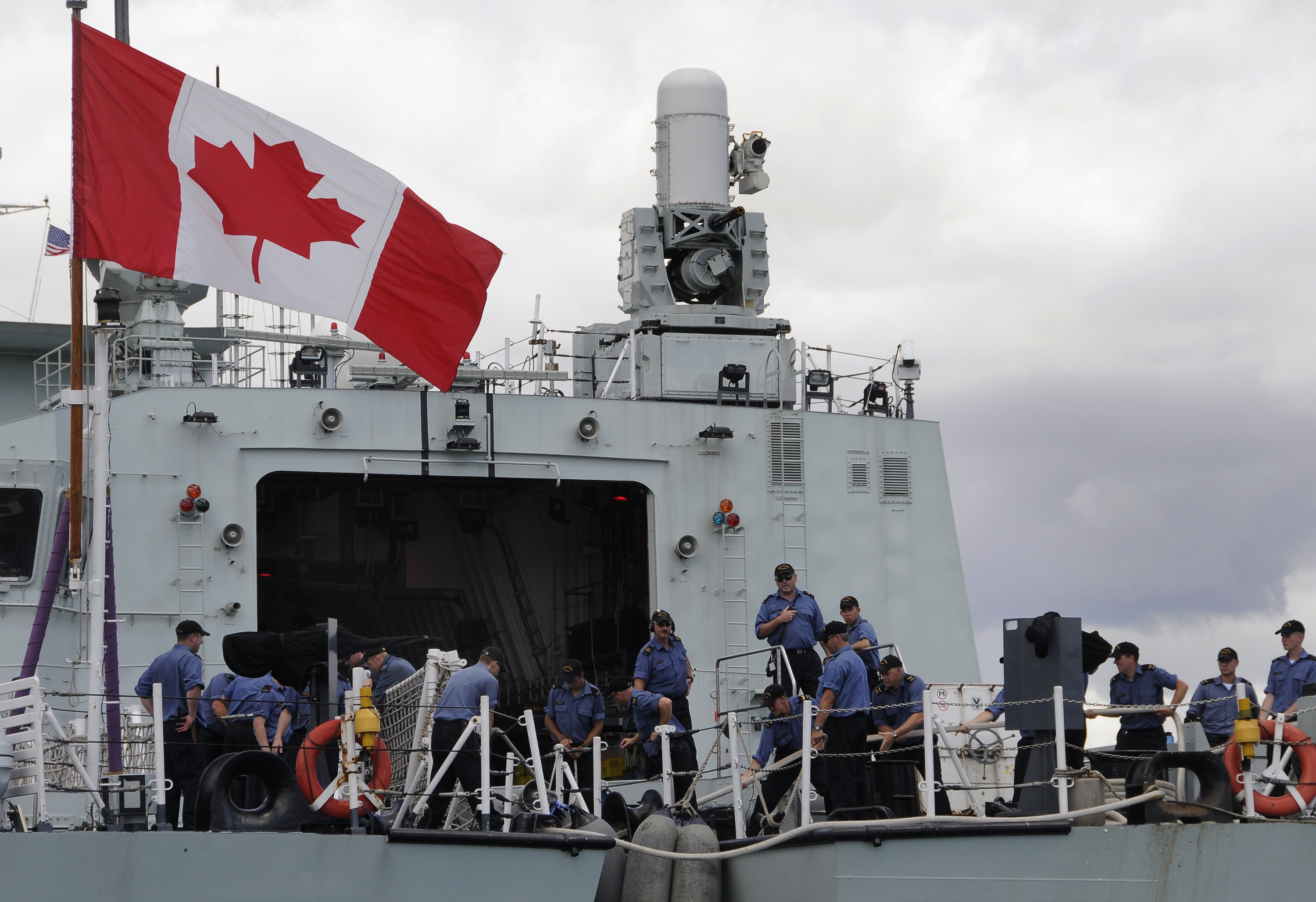 PEARL HARBOR, Hawaii (July 8, 2008) Canadian Sailors aboard the Canadian Halifax-class frigate HMCS Ottawa (FFH 341) handle mooring lines preparing the ship for sea to participate in Rim of the Pacific (RIMPAC) 2008. RIMPAC is the world's largest multinational exercise and is scheduled biennially by the U.S. Pacific Fleet. Participants include the United States, Australia, Canada, Chile, Japan, the Netherlands, Peru, Republic of Korea, Singapore, and the United Kingdom. U.S. Navy photo by Mass Communication Specialist 1st Class Michael Moriatis (Released)